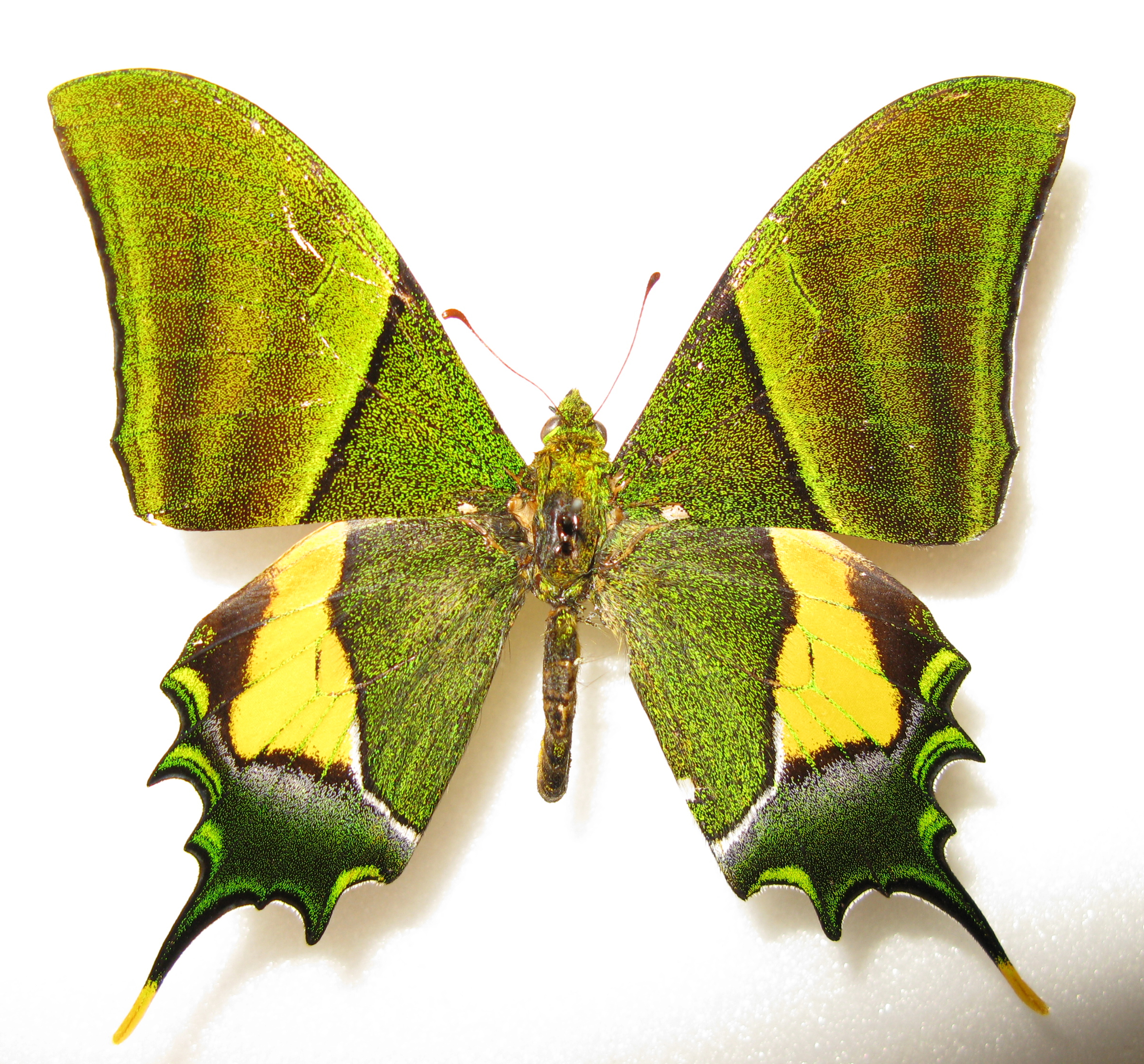 Teinopalpus imperialis (male)